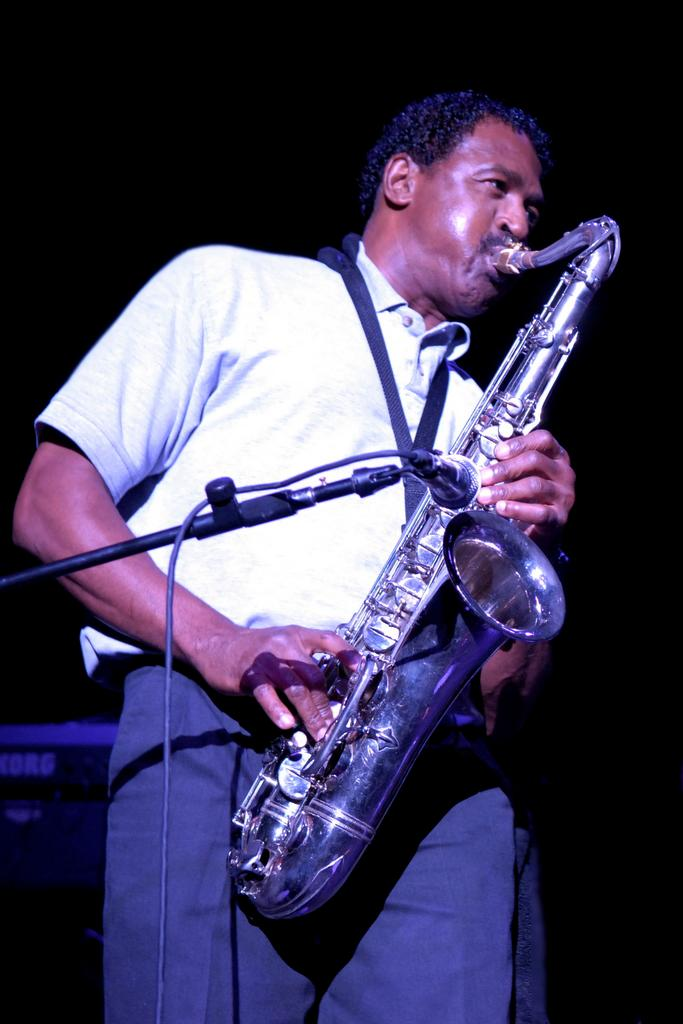 Performing with Zappa on Zappa, Napoleon Murphy Brock